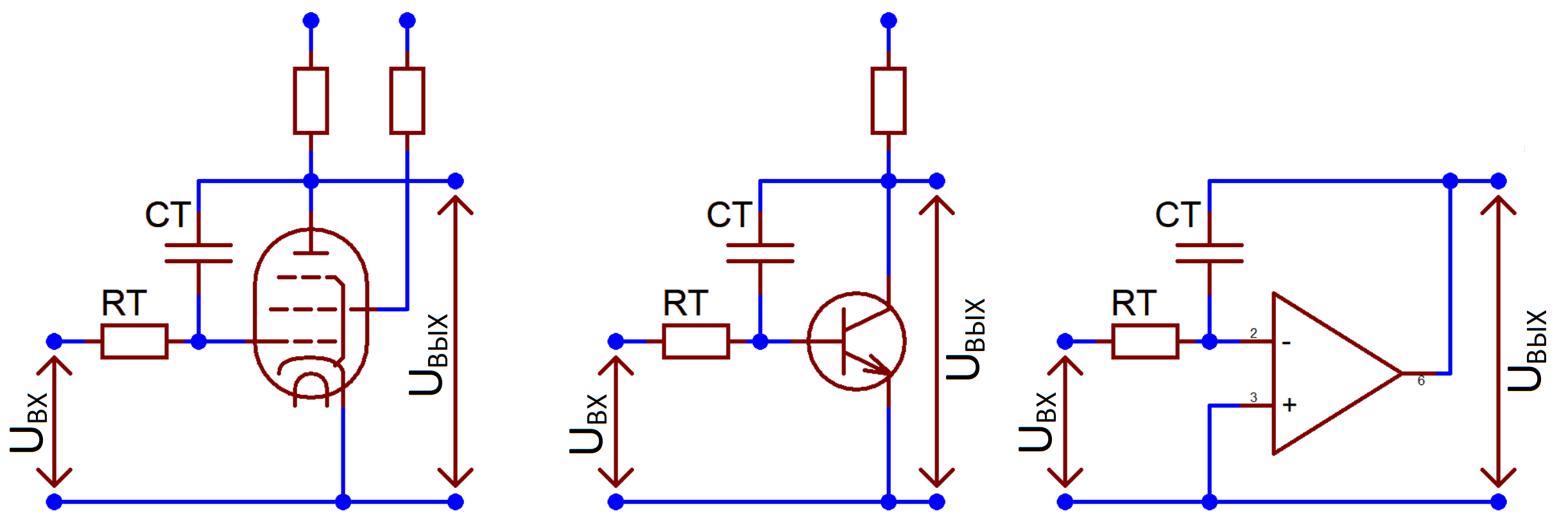 Miller integrator topology with pentodes, transistors and opamps. The configuration was patented by A.D.Blumlein in 1936 and 1942 (posthumously granted). Blumlein named it after the Miller effect. John Milton Miller described it in 1919 but he did not invent the Miller integrator! After WW2, some Brits tried to enforce renaming the topology into Blumlein integrator; it didn't catch up.